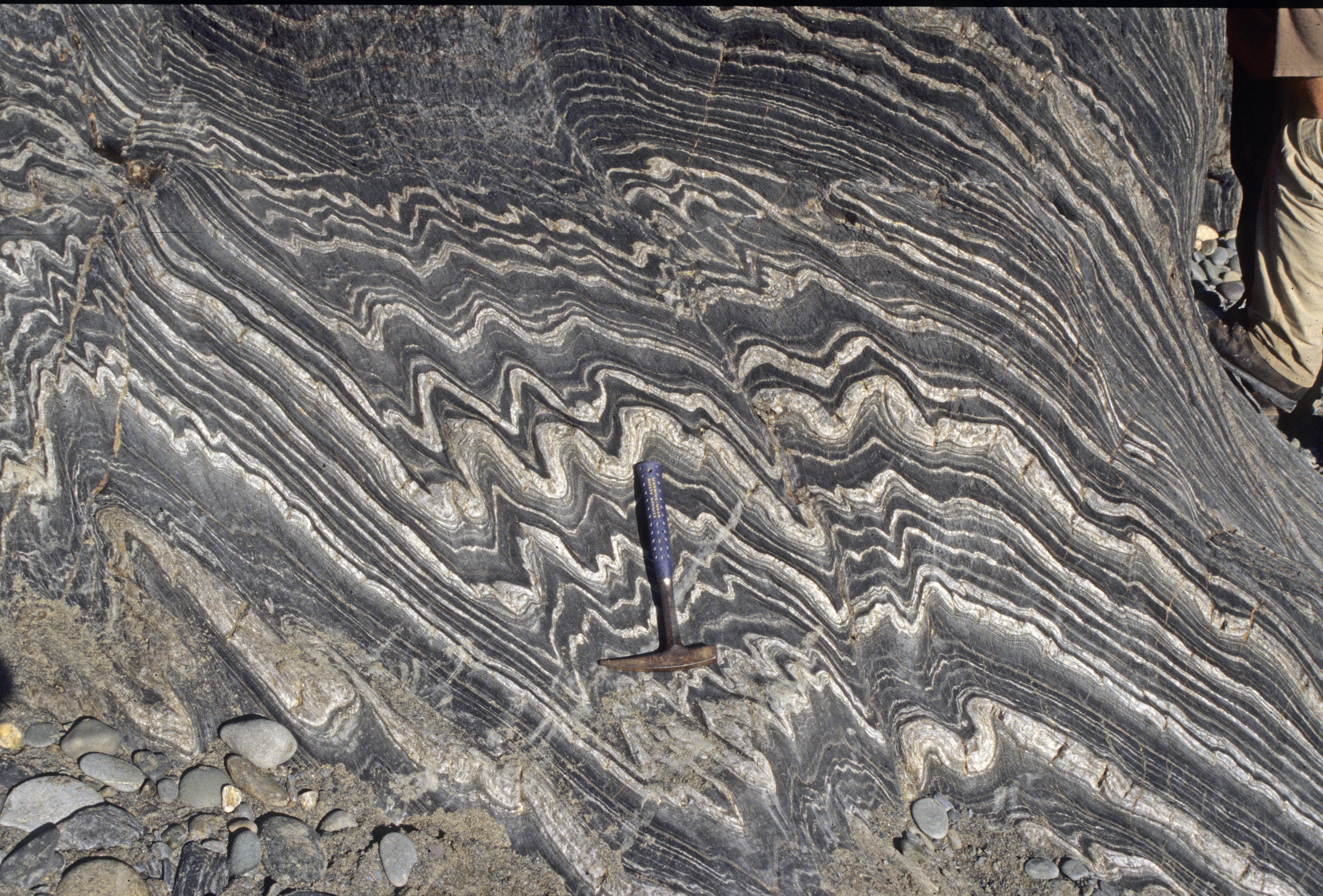 Folds in slate and quartzite of the Meguma Group near the Ovens, Nova Scotia